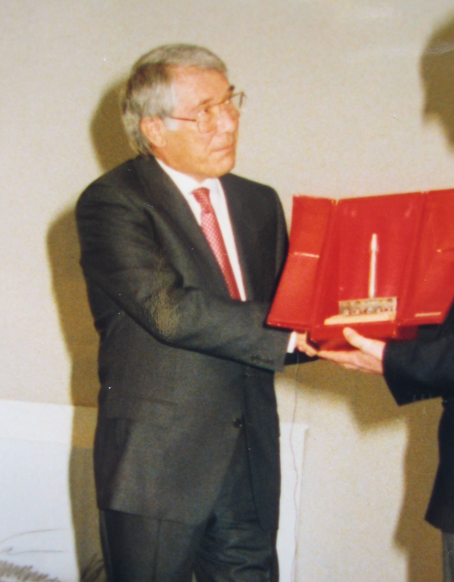 Ciminiera d'argento